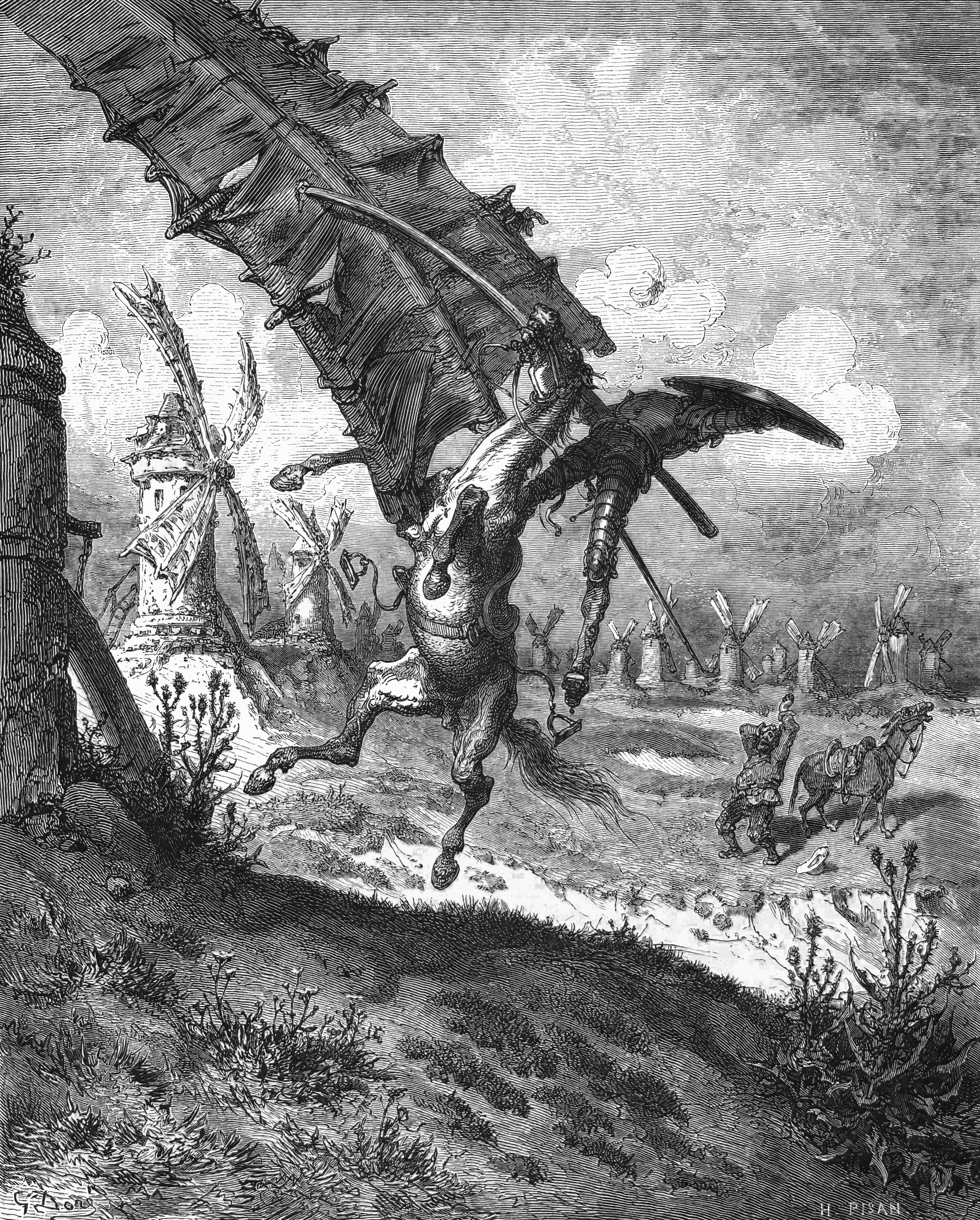 Don Quijote Illustration by Gustave Dore VII